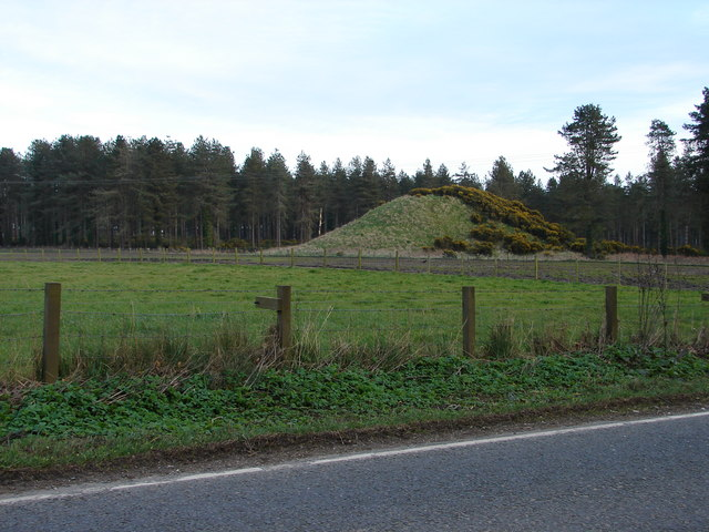 Droughduil Mound Droughduil Mound (erroneously known as Droughdool Mote) is a Neolithic mound in juxtaposition with the site of an enclosure to the north.